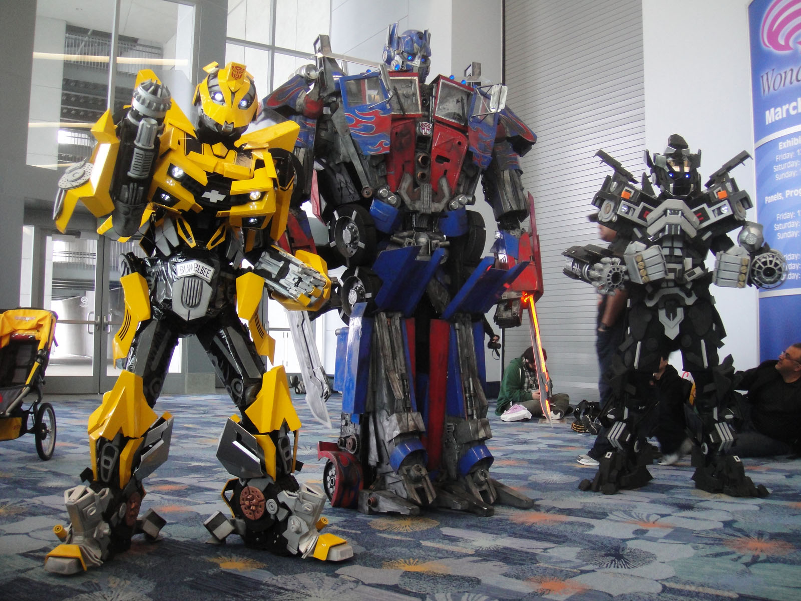 photo 2012 Pop Culture Geek taken by Doug Kline If you're interested in higher resolution versions of my images, contact me via my profile page.